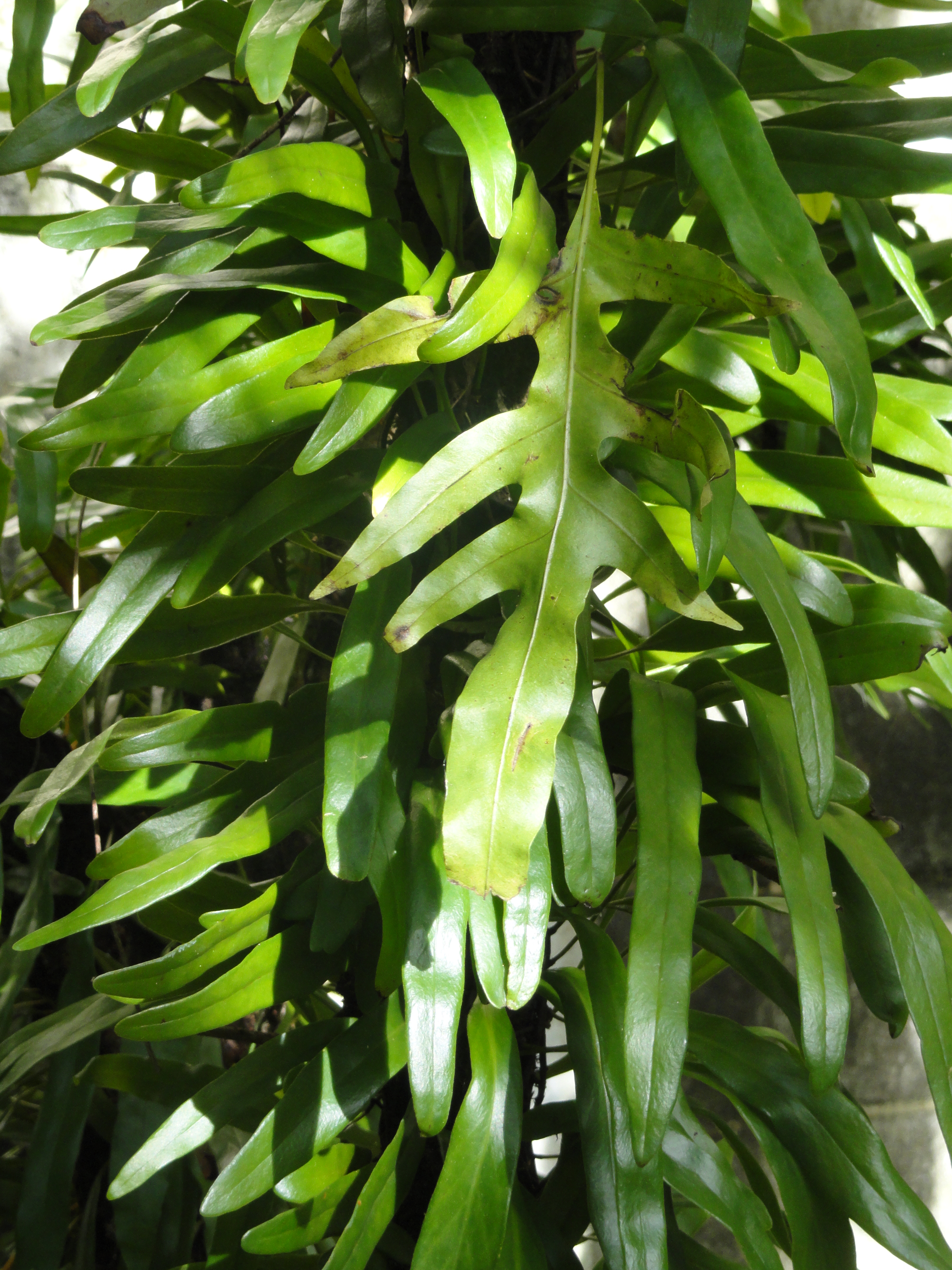 Guam Zoological, Botanical and Marine Garden, Tumon Bay, Guam, USA.